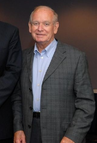 Former Governor of Iowa Robert D. Ray, 2007